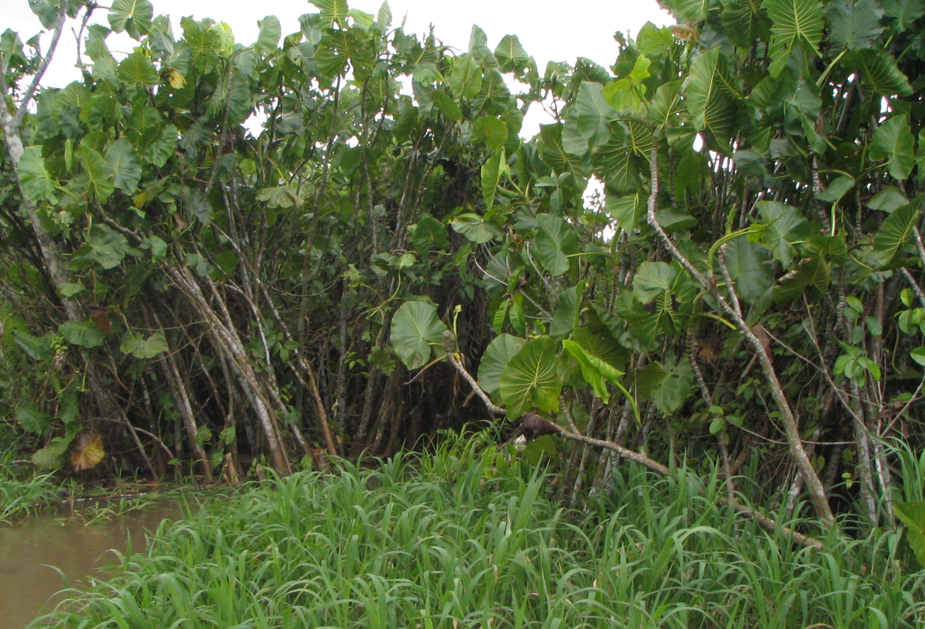 3-4m high stand of Montrichardia linifera forming a barrier between Lago do Guedes and Lago Iquito (Mamiraua Reserve). Locals cutted a way through for boats. Foreground: Paspalum repens. latitude: -2.469286, longitude: -65.604647)